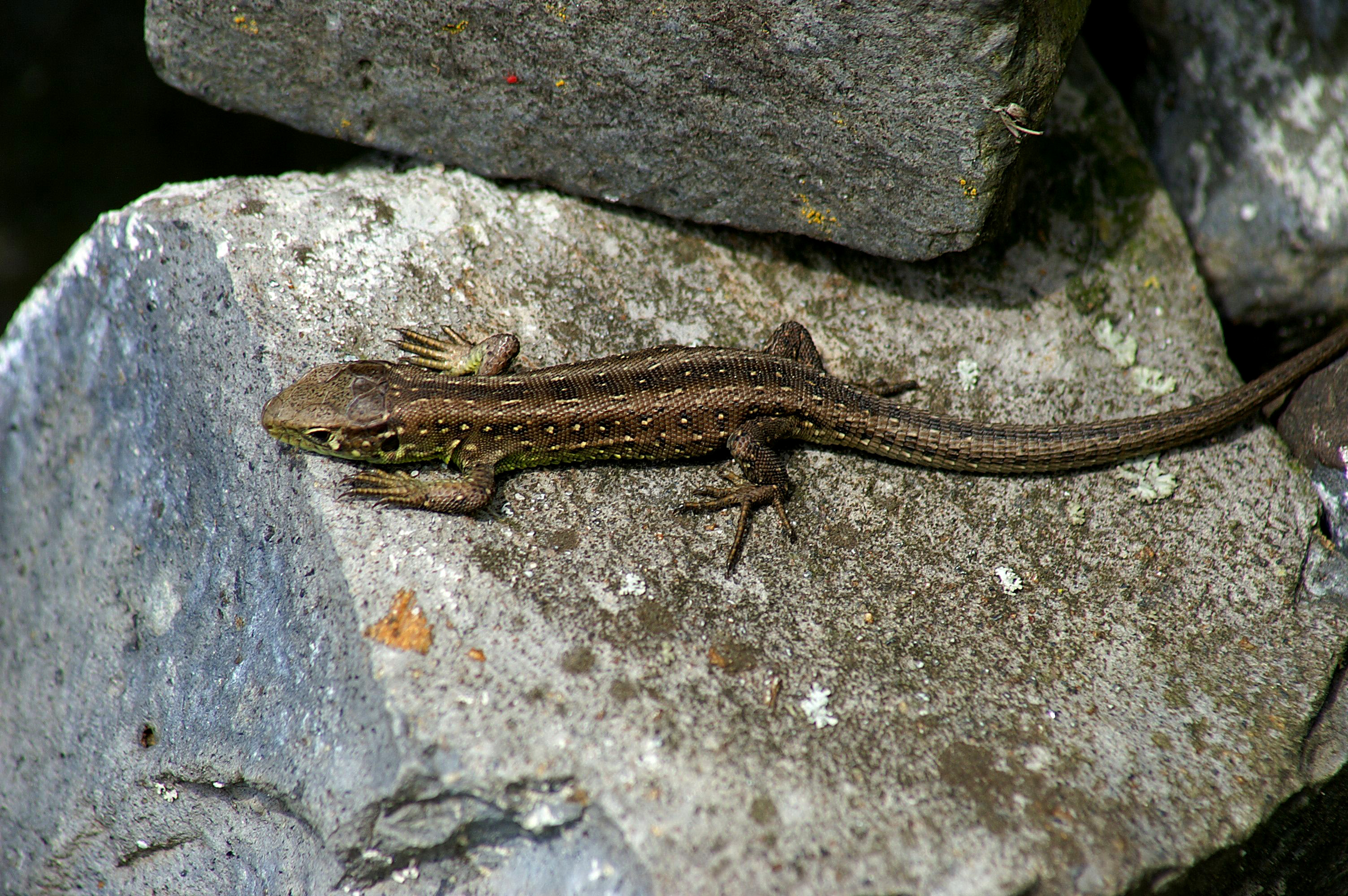 Subadult specimen of the Sand Lizard, Lacerta agilis, sun bathing.